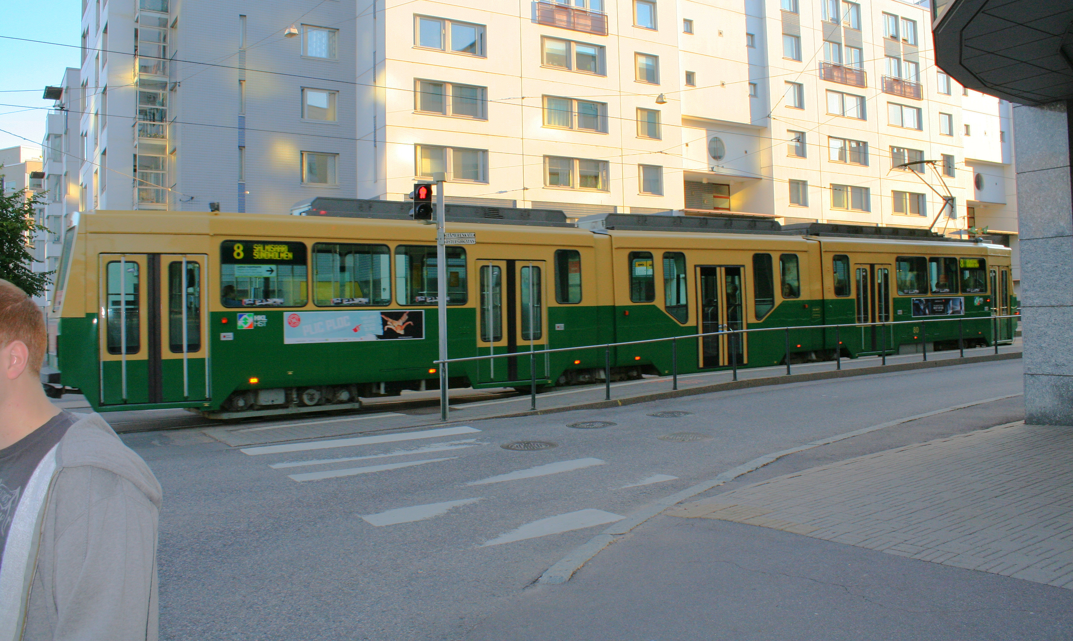 Helsinki City Transport tram number 80 in Ruoholahti. Type Nr II built by Valmet in 1984, refitted with a low-floor midsection in 2006. The other Nr II trams will be similarly refitted from 2008 onwards.